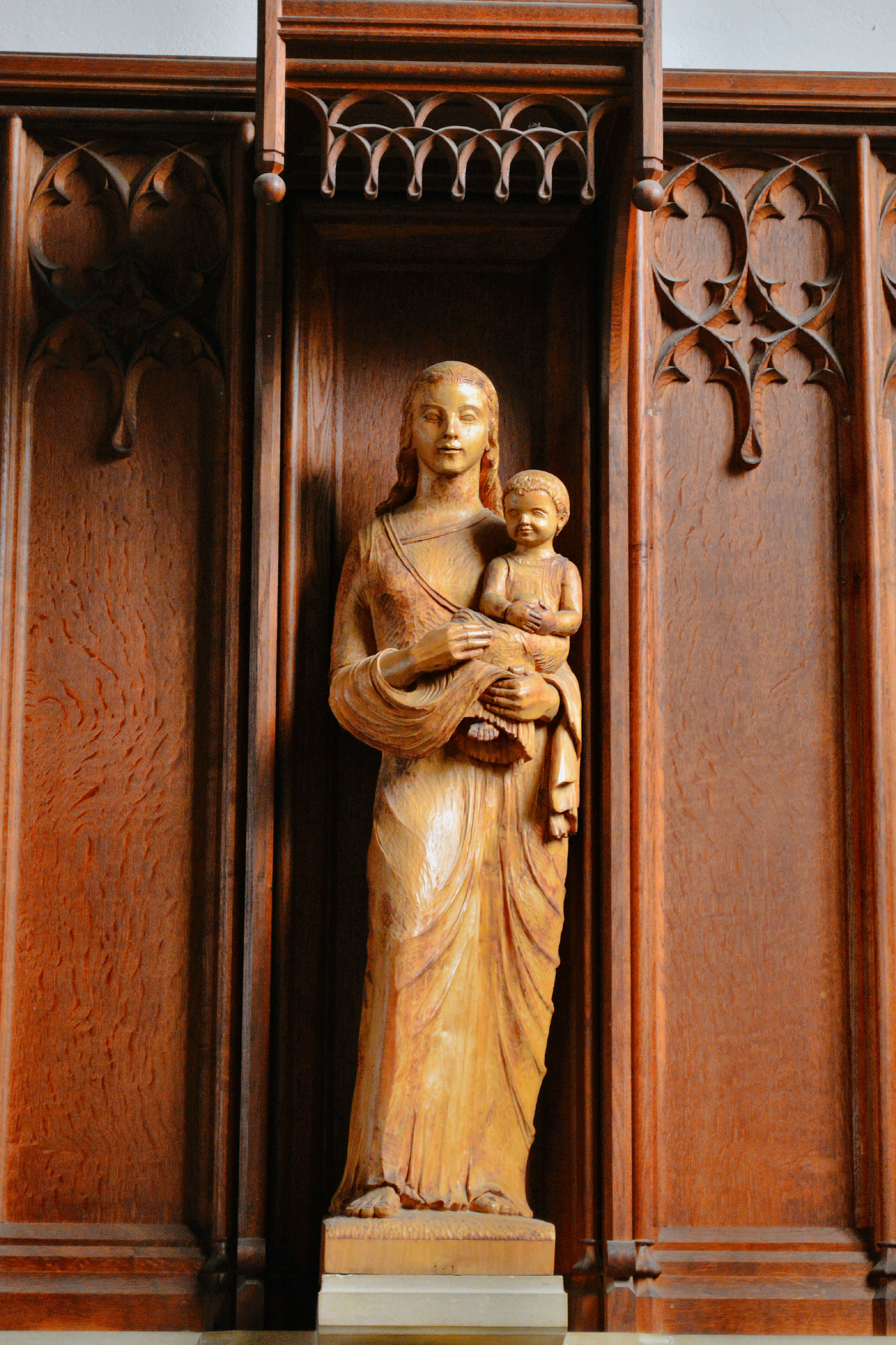 Dulwich, St Thomas More Church, Madonna and Child by Freda Skinner (1933)